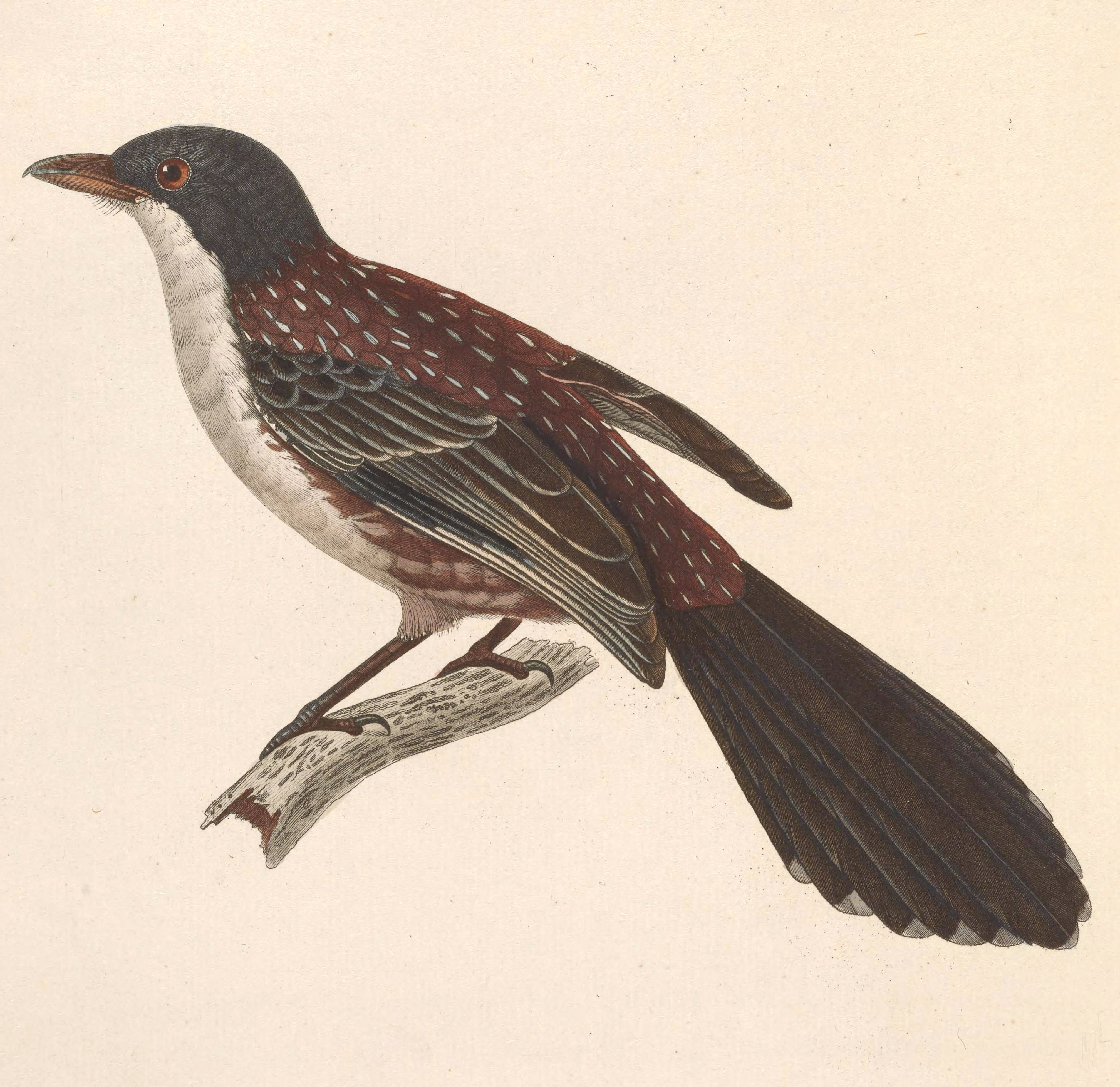 « Crocias guttatus » = Crocias albonotatus (Spotted Crocias) - adult